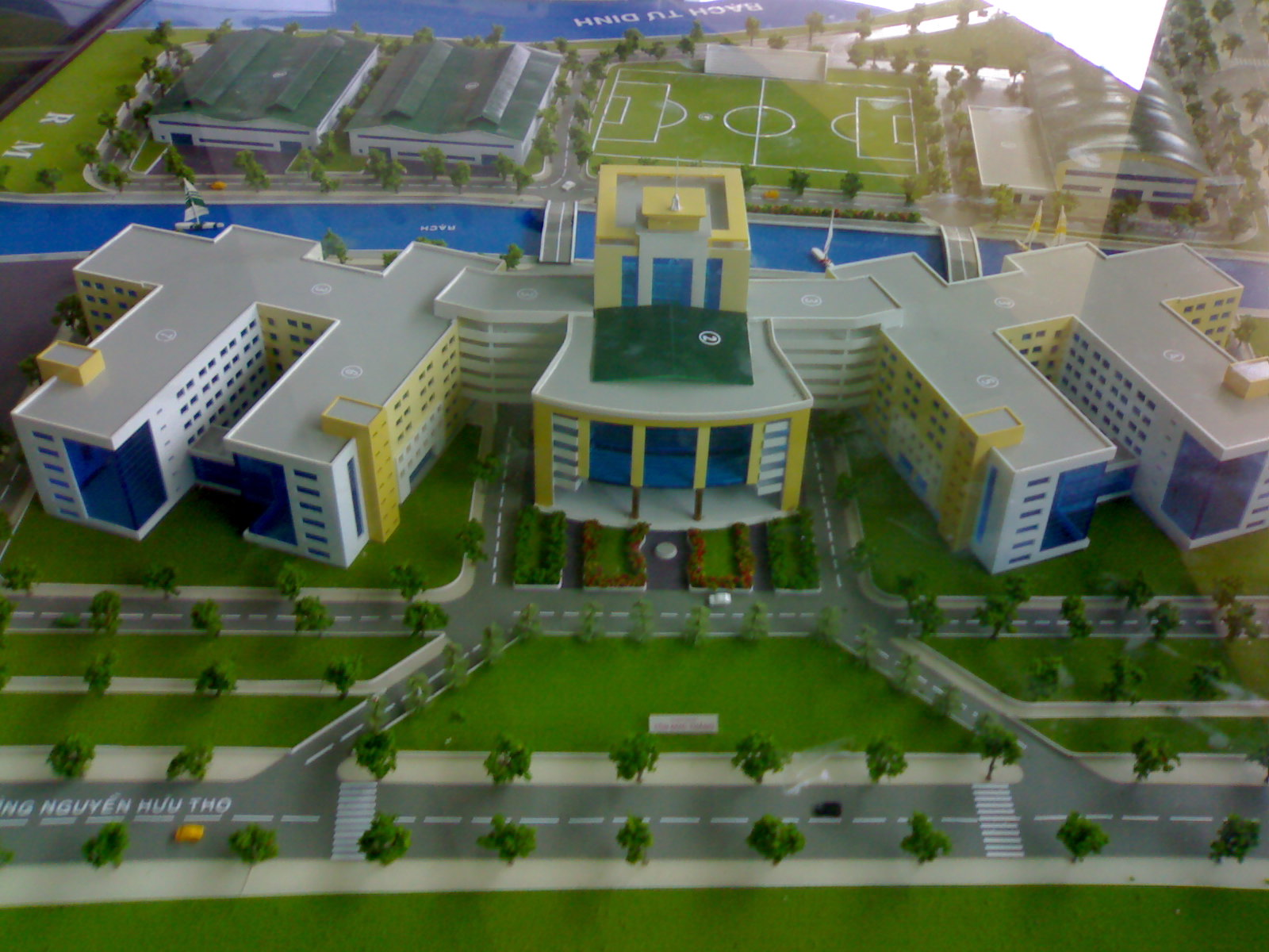 My picture